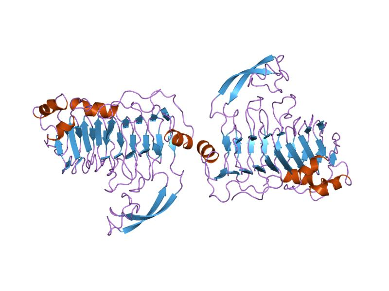 Cartoon representation of the molecular structure of protein registered with 1idj code.